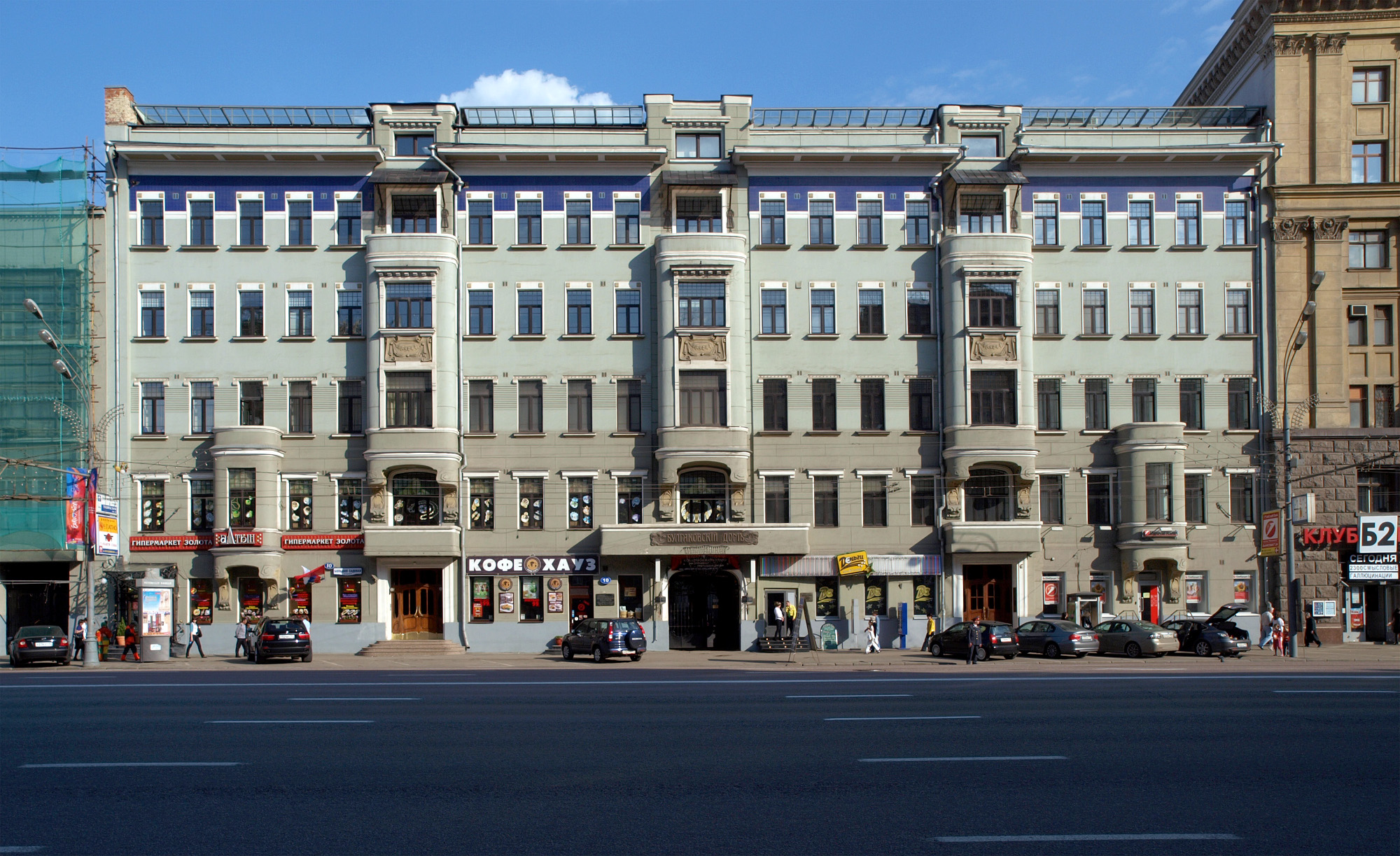 Bolshaya Sadovaya Street, Moscow.